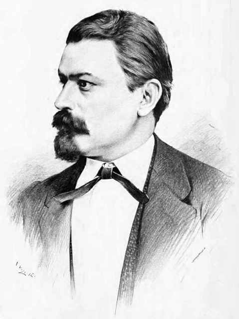 Vítězslav Hálek (1835–1874), Czech writer and poet